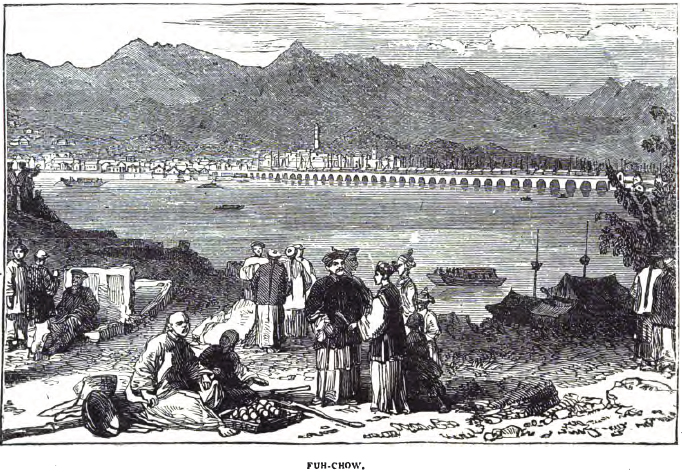 City of Fuzhou, in the late 19th century